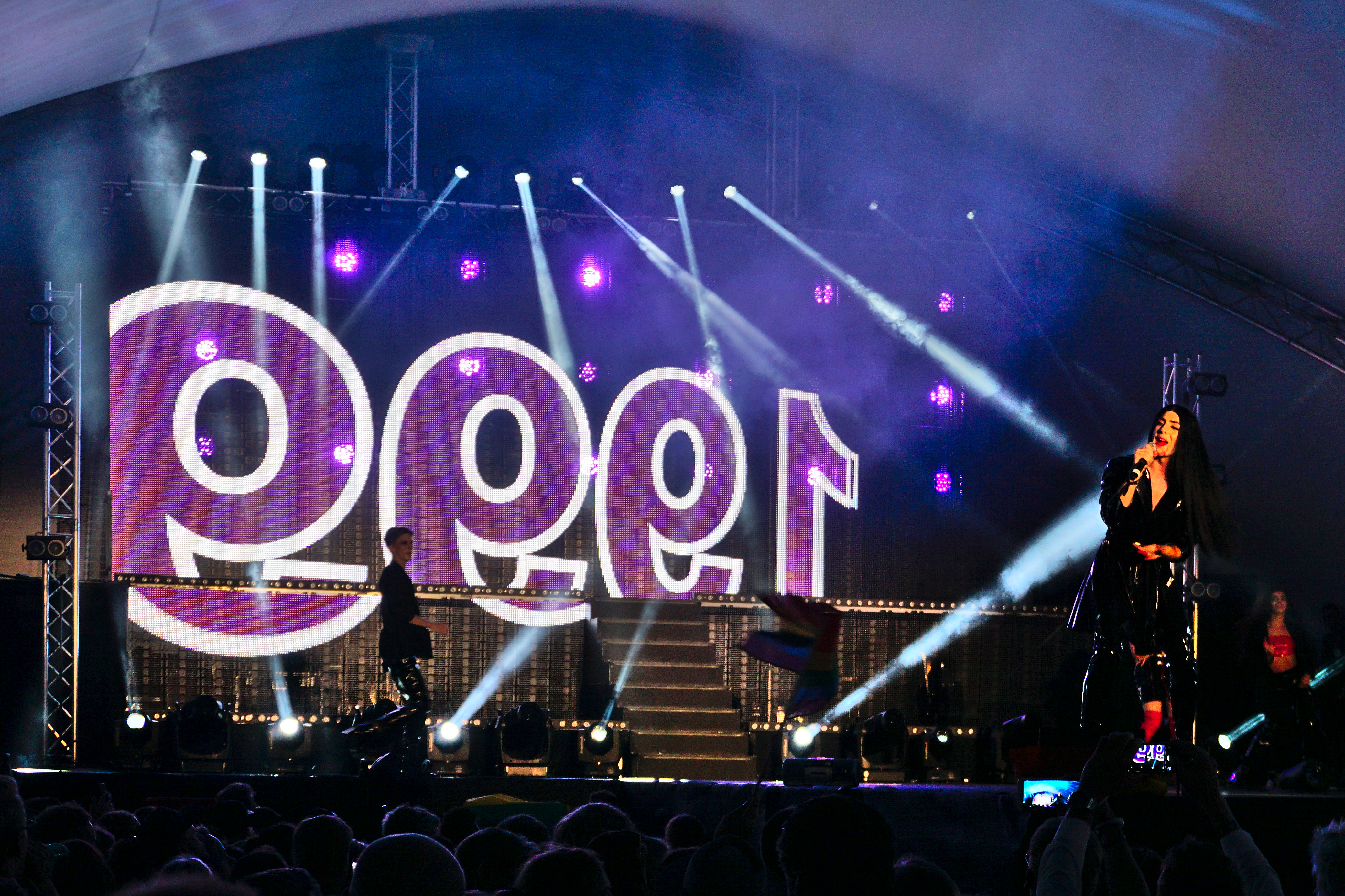 Arrhult at EuroPride 2018